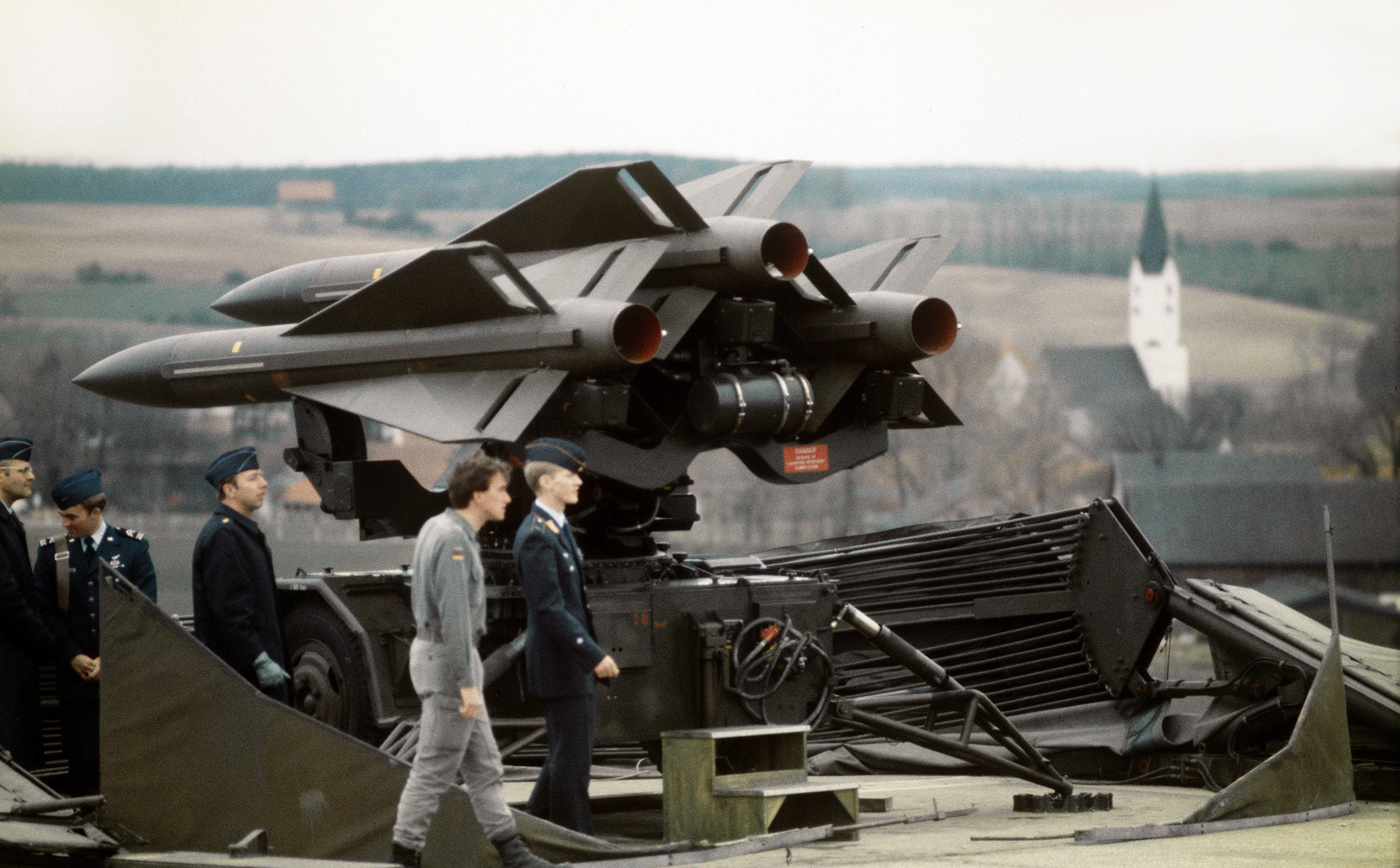 U.S. Air Force Academy cadets visit a German Luftwaffe MIM-23 Hawk Dummy missile site on 20 April 1981.